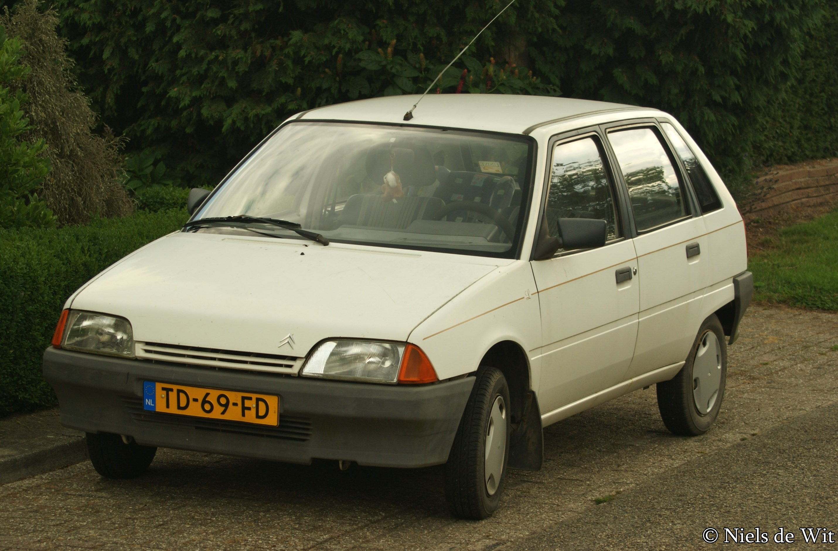 TD-69-FD